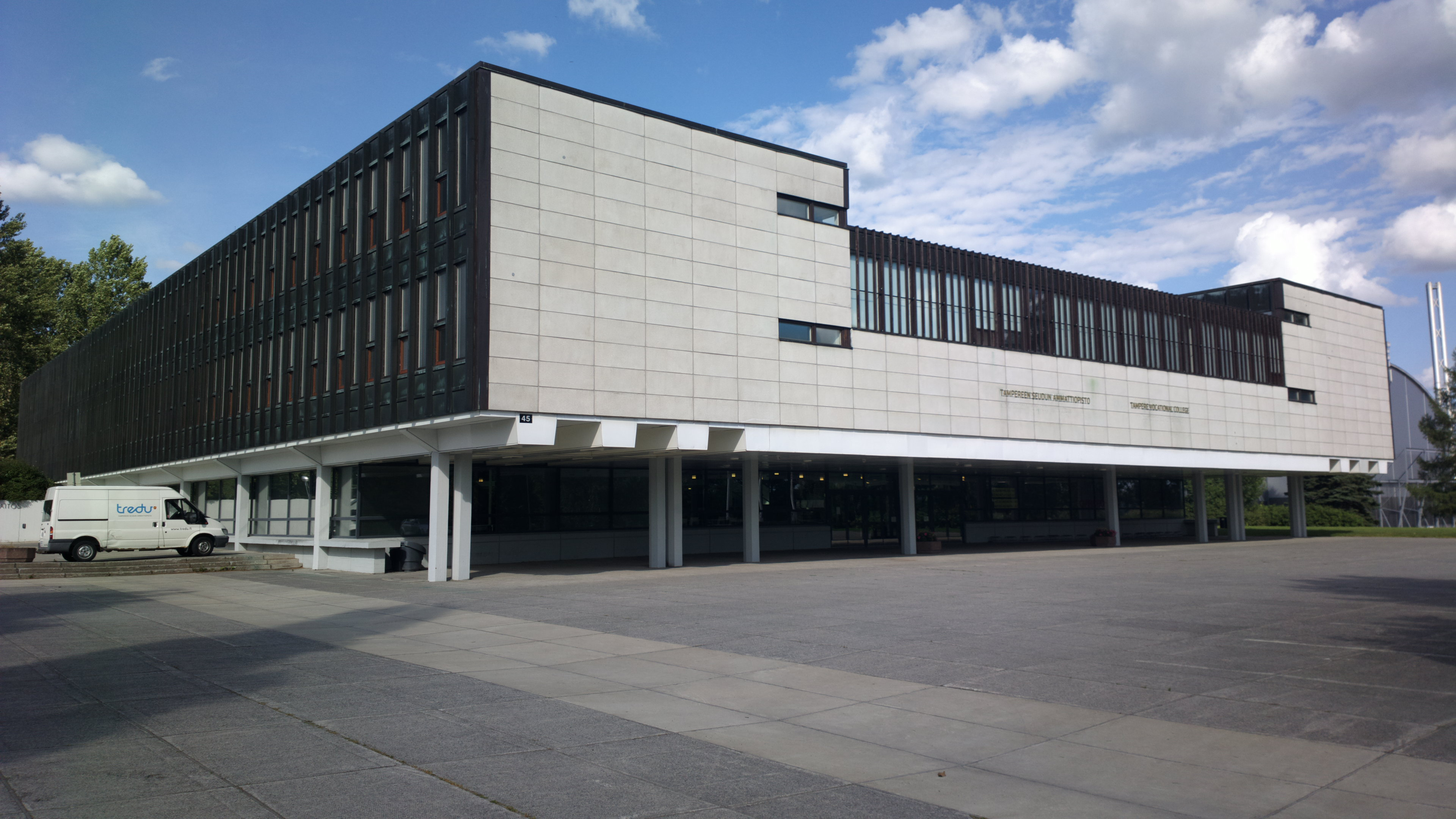 Tampere vocational college Tredu, Sammonkatu campus in Tampere